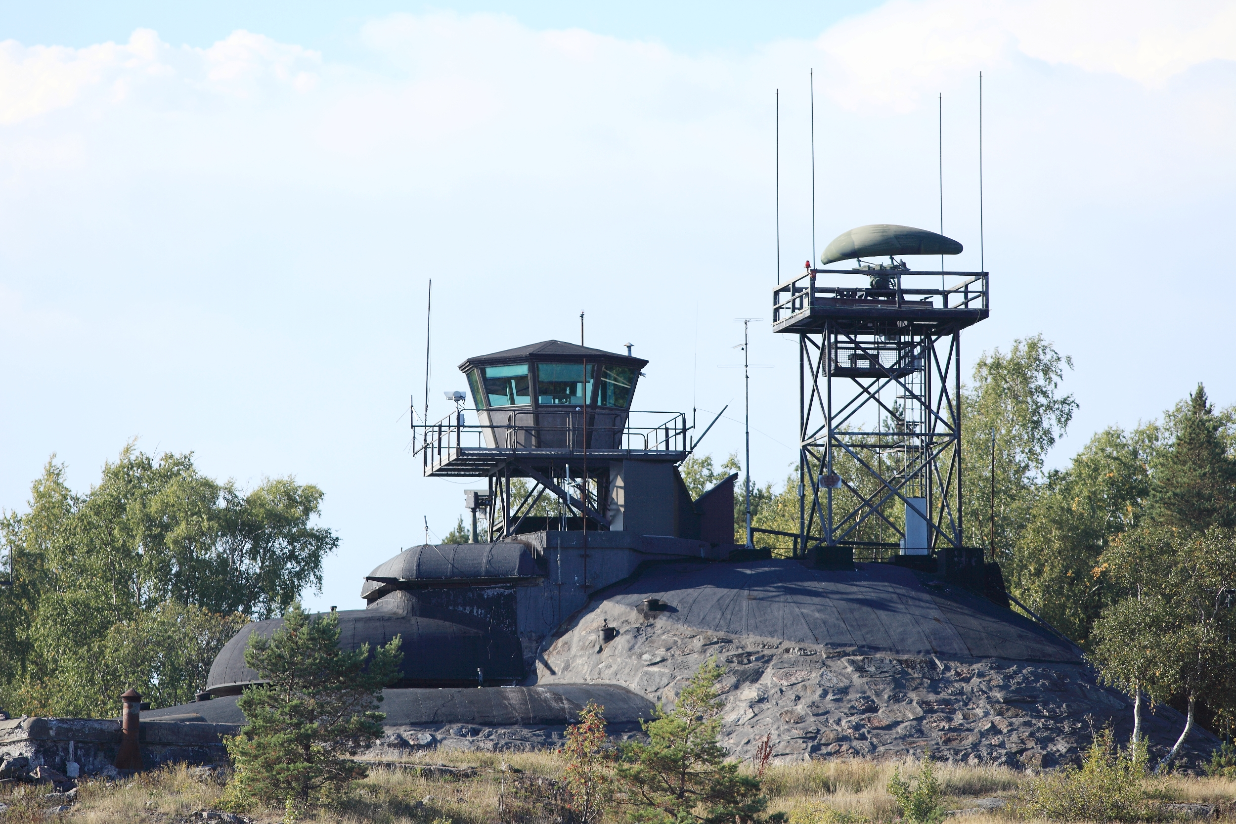 Isosaari sea surveillance station was manned until 2004. The station is also a coastal artillery fire control bunker.